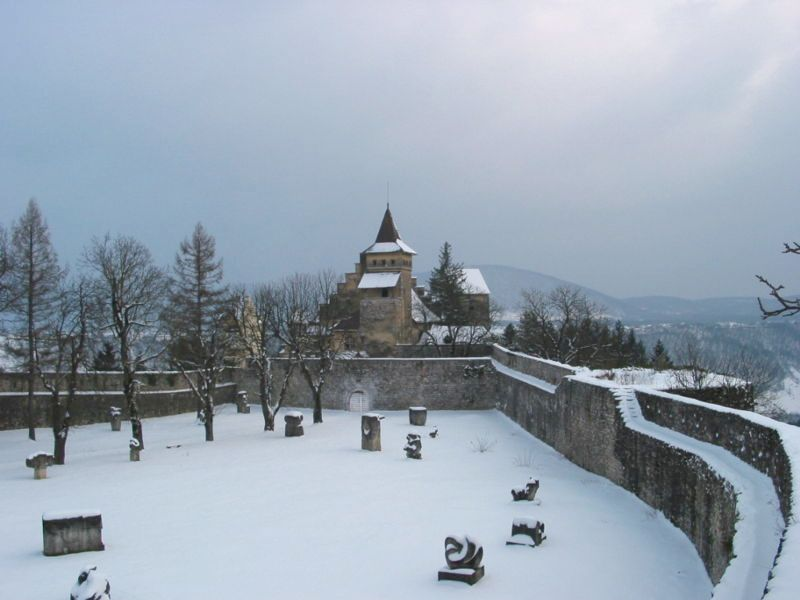 Ostrožac Castle in winter